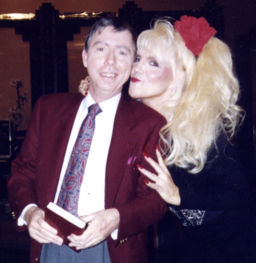 Gilles Latulippe and JoJo Savard in Quebec City in 1994.